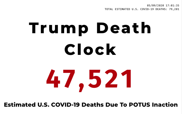 A screenshot of the main part of the Trump Death Clock site.